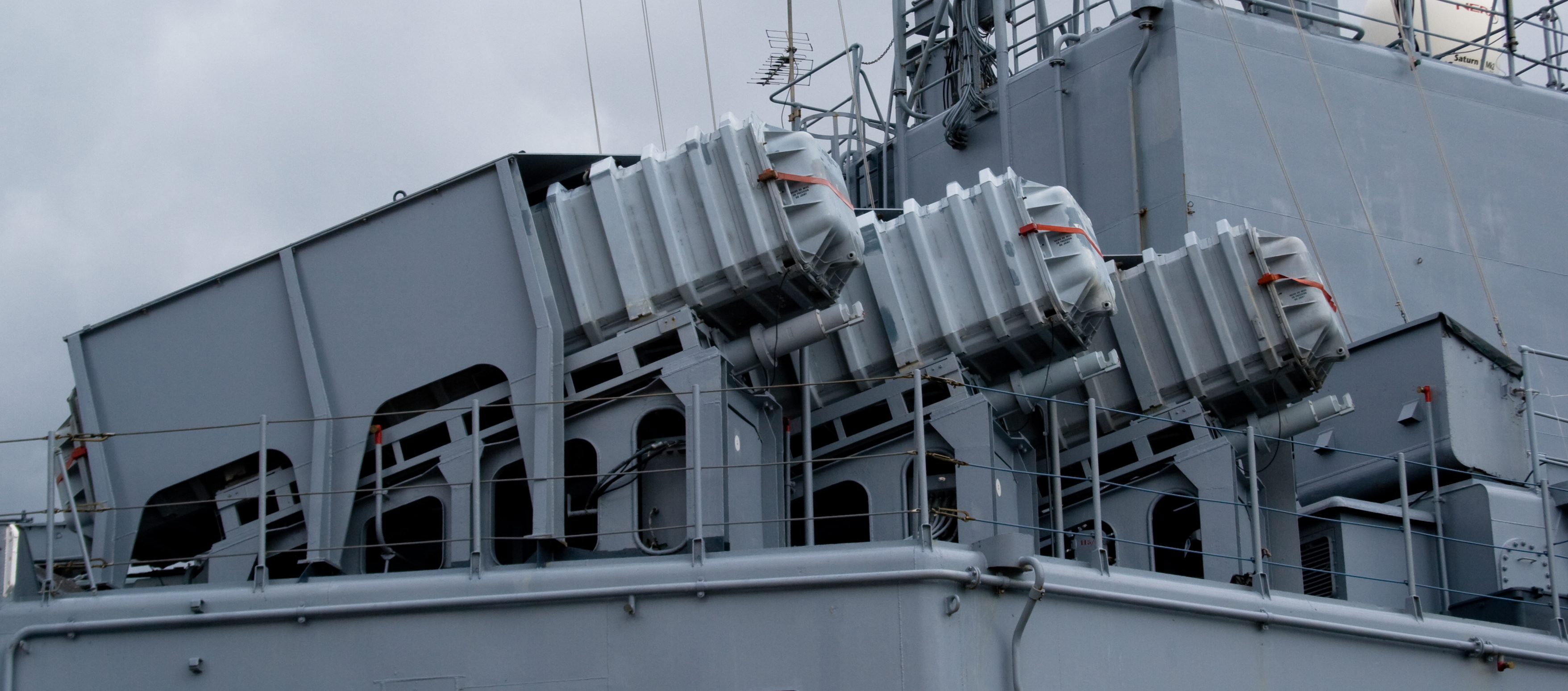 MM-38 Exocet launchers at starboard of the Tourville